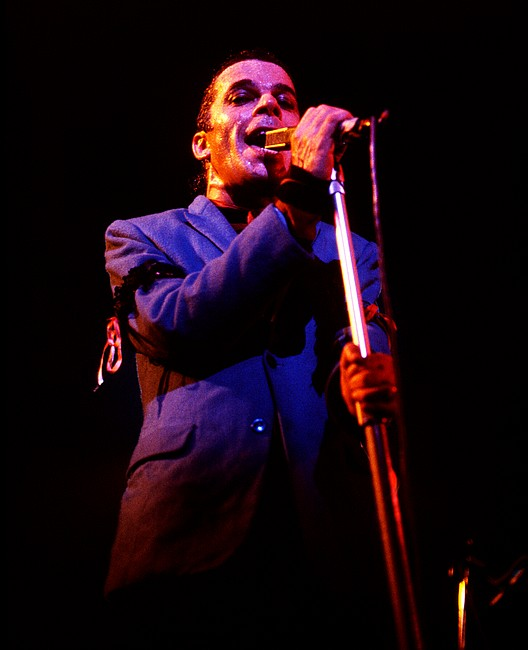 Ian Dury at the Roundhouse, Chalk Farm, London, 1978